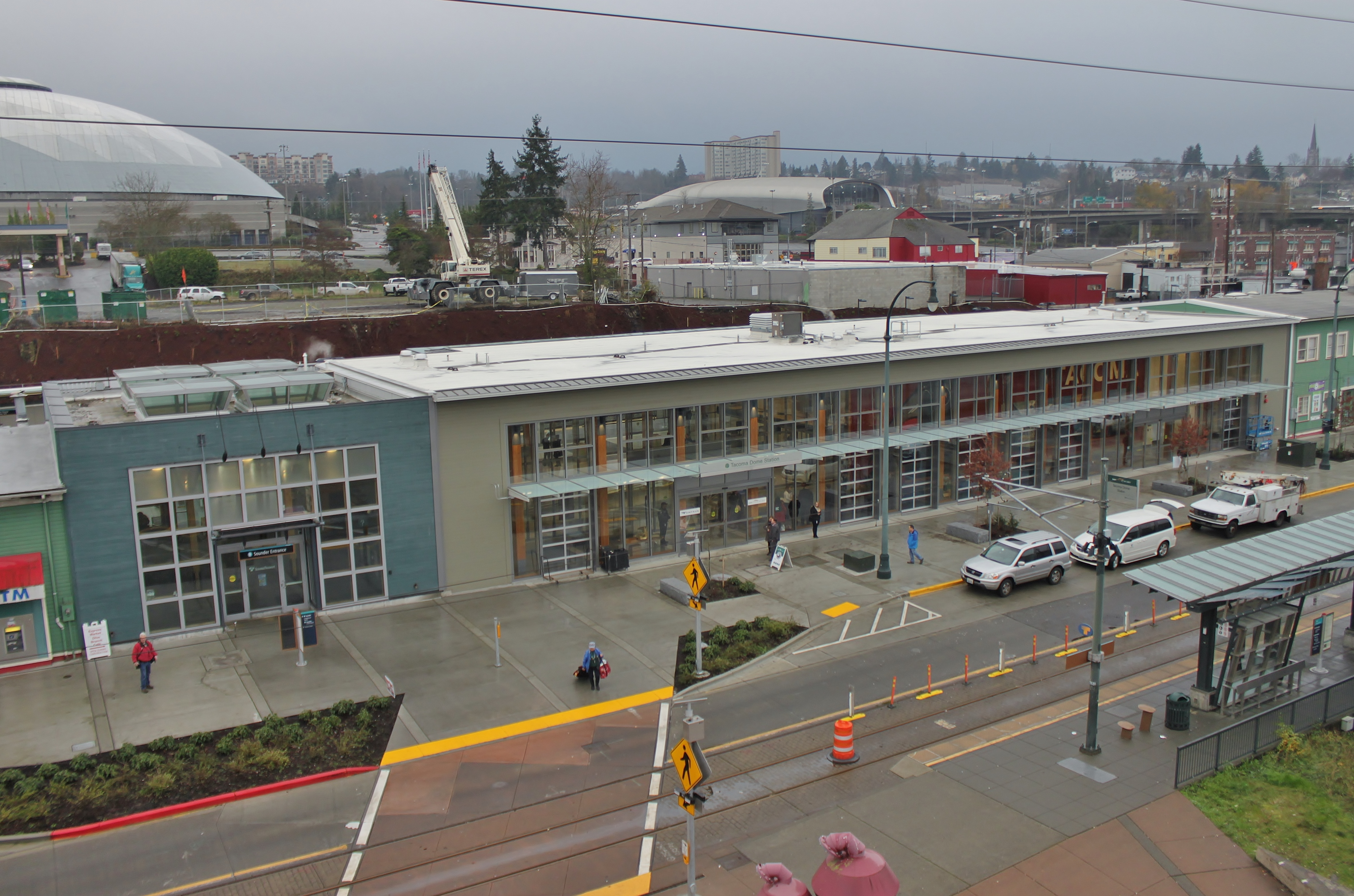 Tacoma Dome Station, a multimodal hub in Tacoma, viewed from its parking garage. From left to right: the Sounder concourse for commuter trains, the Amtrak station for intercity trains, and the Tacoma Link platform. The Tacoma Dome can be seen in the background.